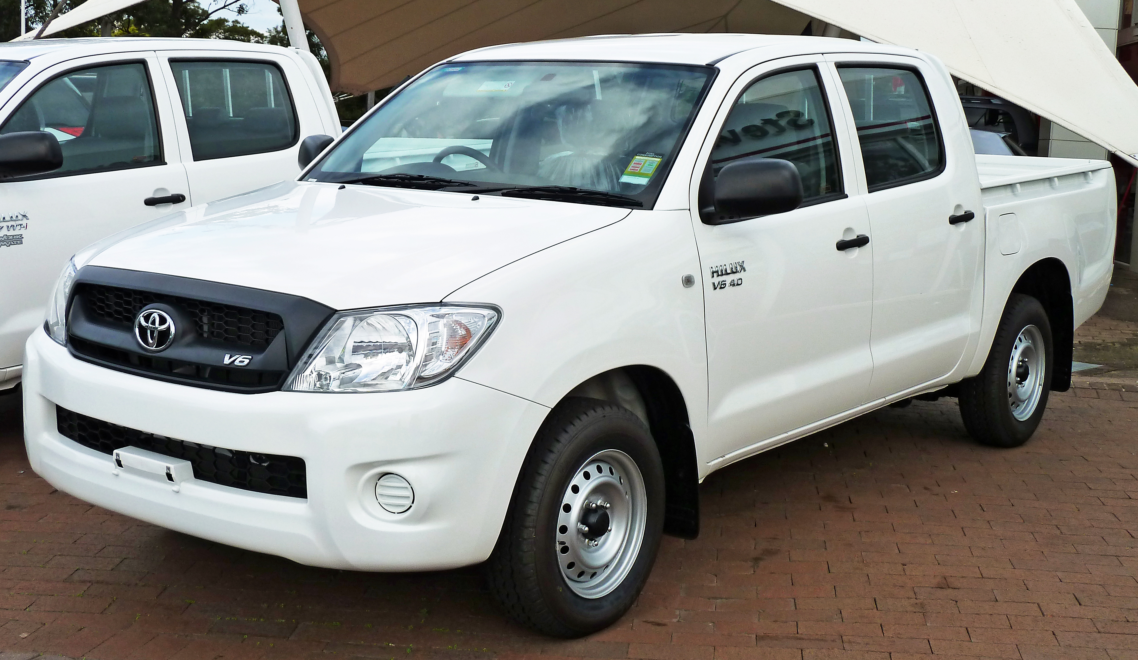 2010–2011 Toyota HiLux (GGN15R MY10) SR 4-door utility. Photographed at Stewart Toyota, Kirrawee, New South Wales, Australia.